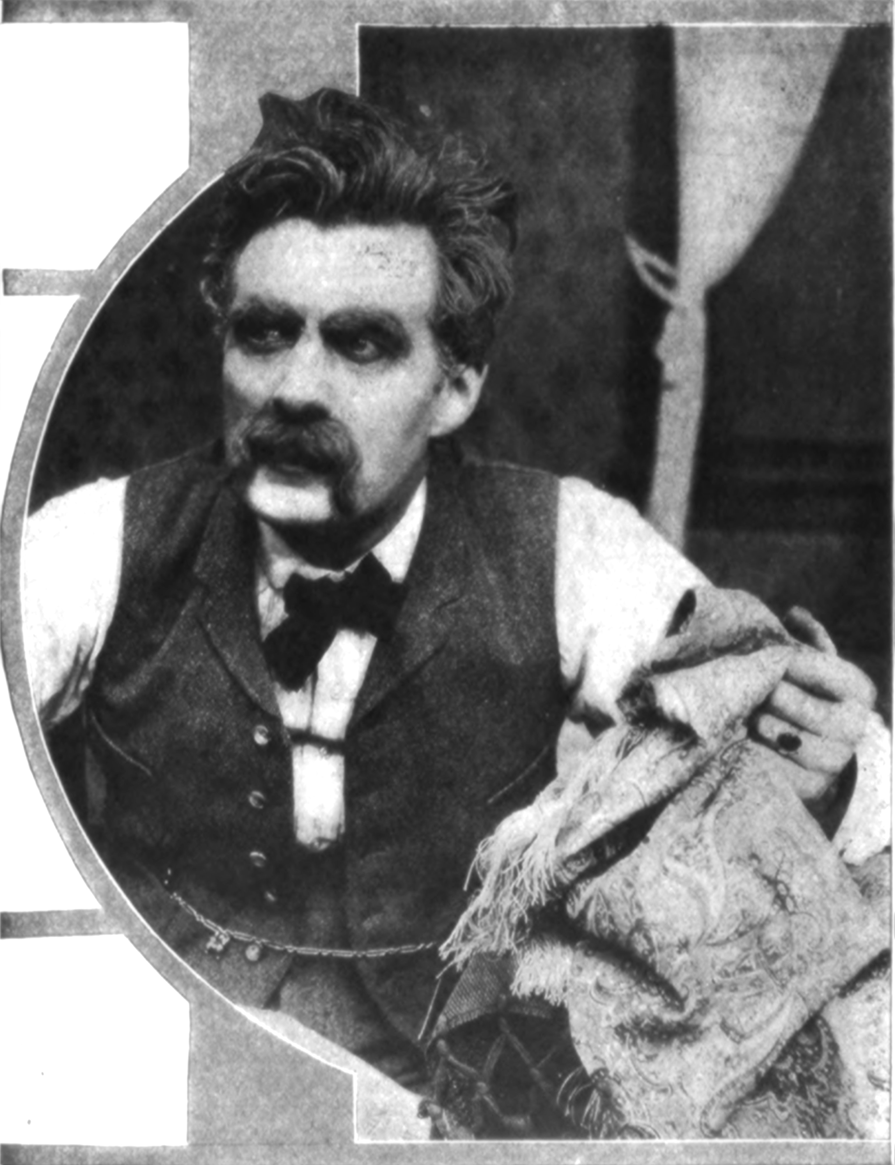 Duncan McRae (1873 – 1931) a British-American actor and film director in Through Turbulent Waters (1915).